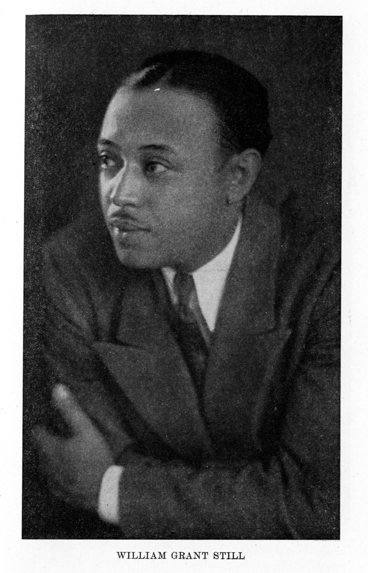 Photograph of William Grant Still